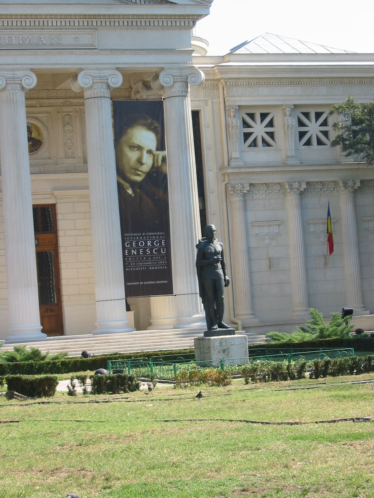 Side view of the Romanian Athaeneum, showing the George Enescu festival poster